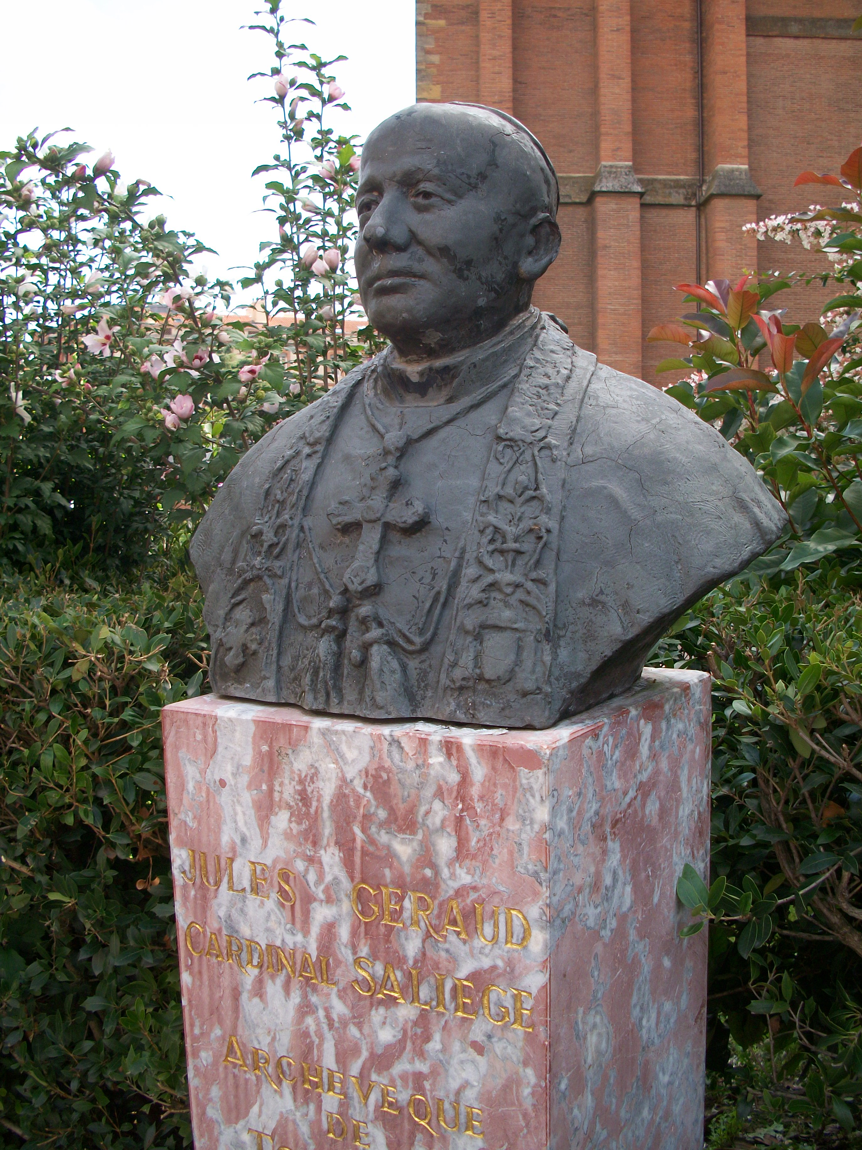 Bust of Cardinal Jules Saliège next to the cathedral of Toulouse, France